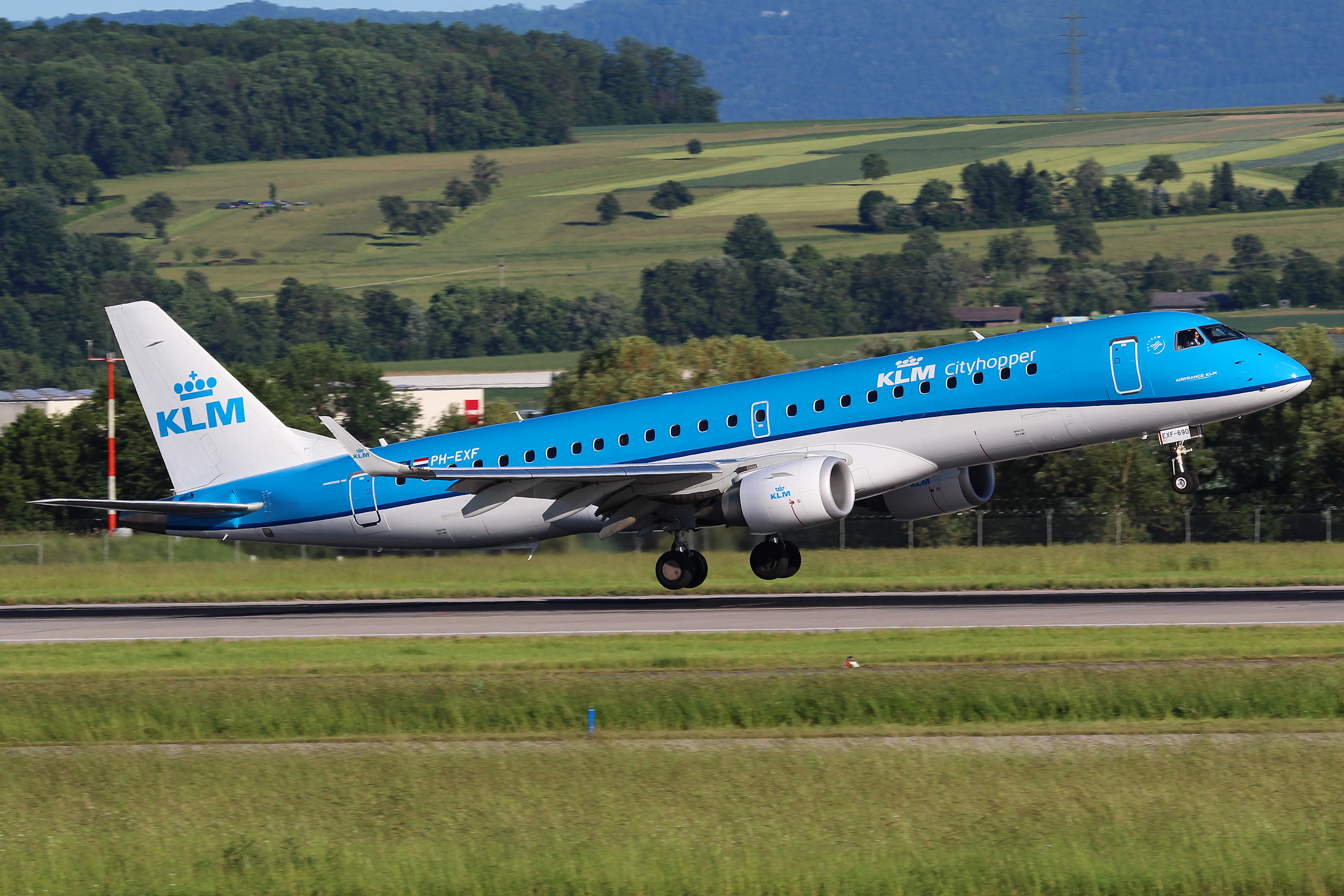 KLM Cityhopper Embraer 190 at Stuttgart Airport.